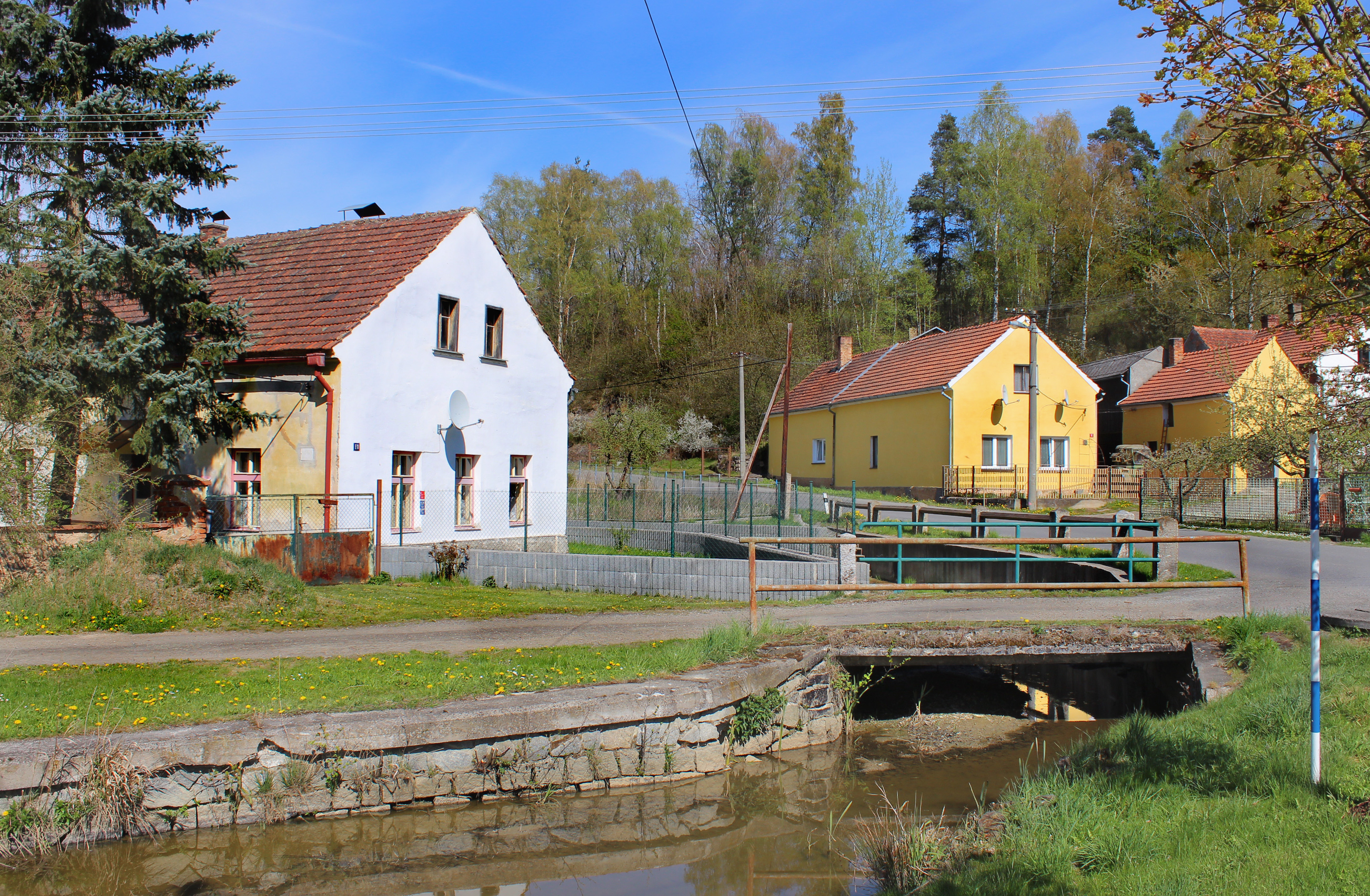 Otročínský Creek in Otročín, part of Stříbro, Czech Republic